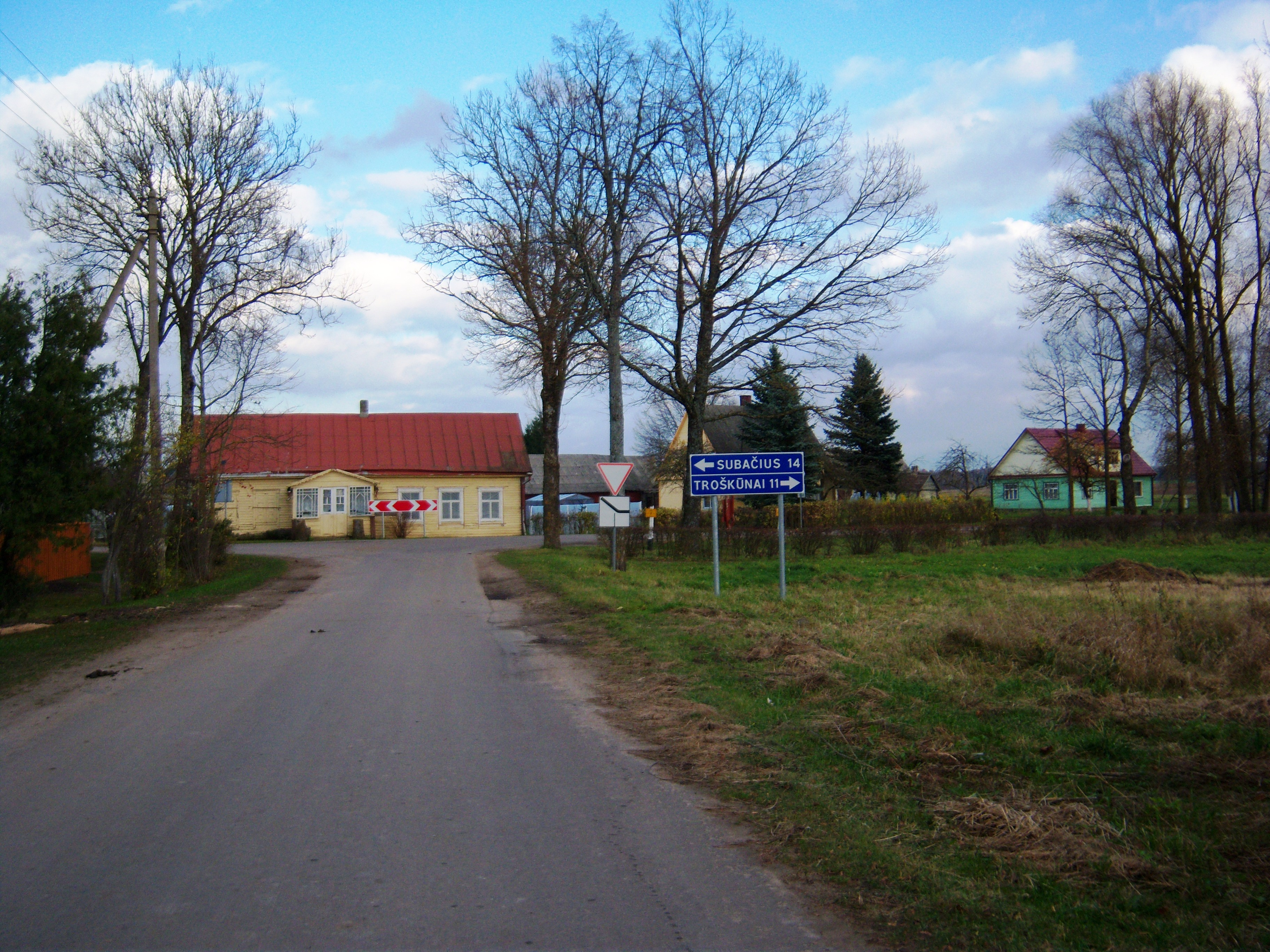 Surdegis, Anykščiai District, Lithuania